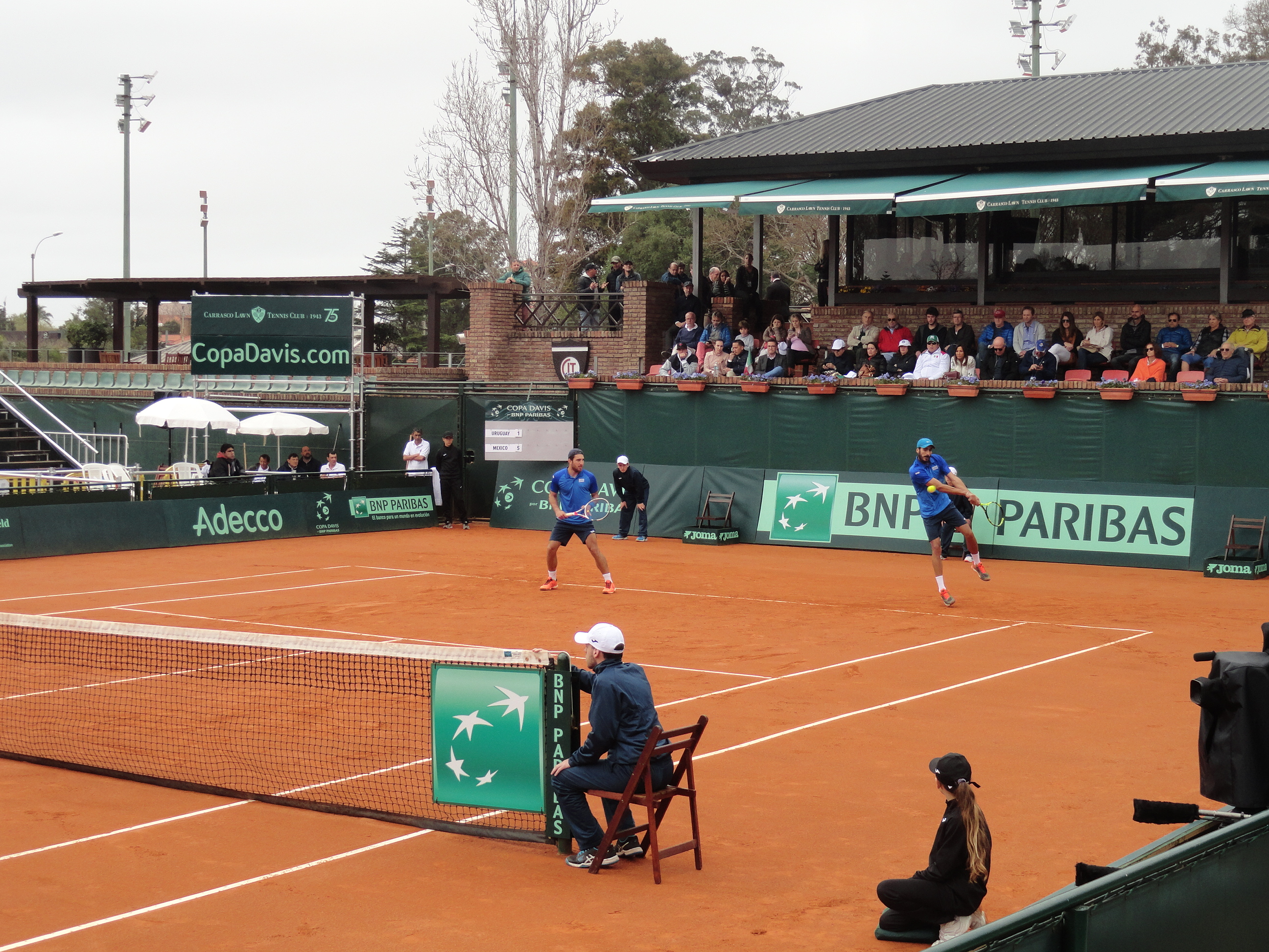 Doubles tennis match at the 2018 Davis Cup Americas Zone match between Uruguay and Mexico, held at the Carrasco Lawn Tennis in Montevideo.